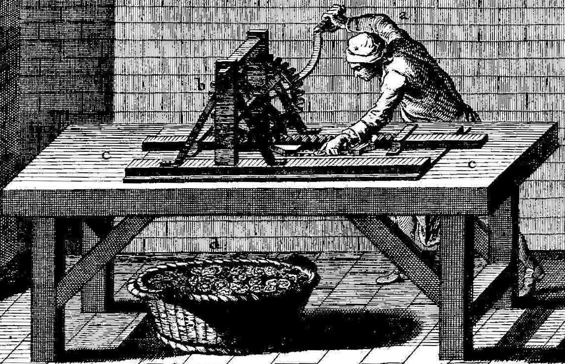 Illustration of a Castaing machine, used to add edge lettering to coins